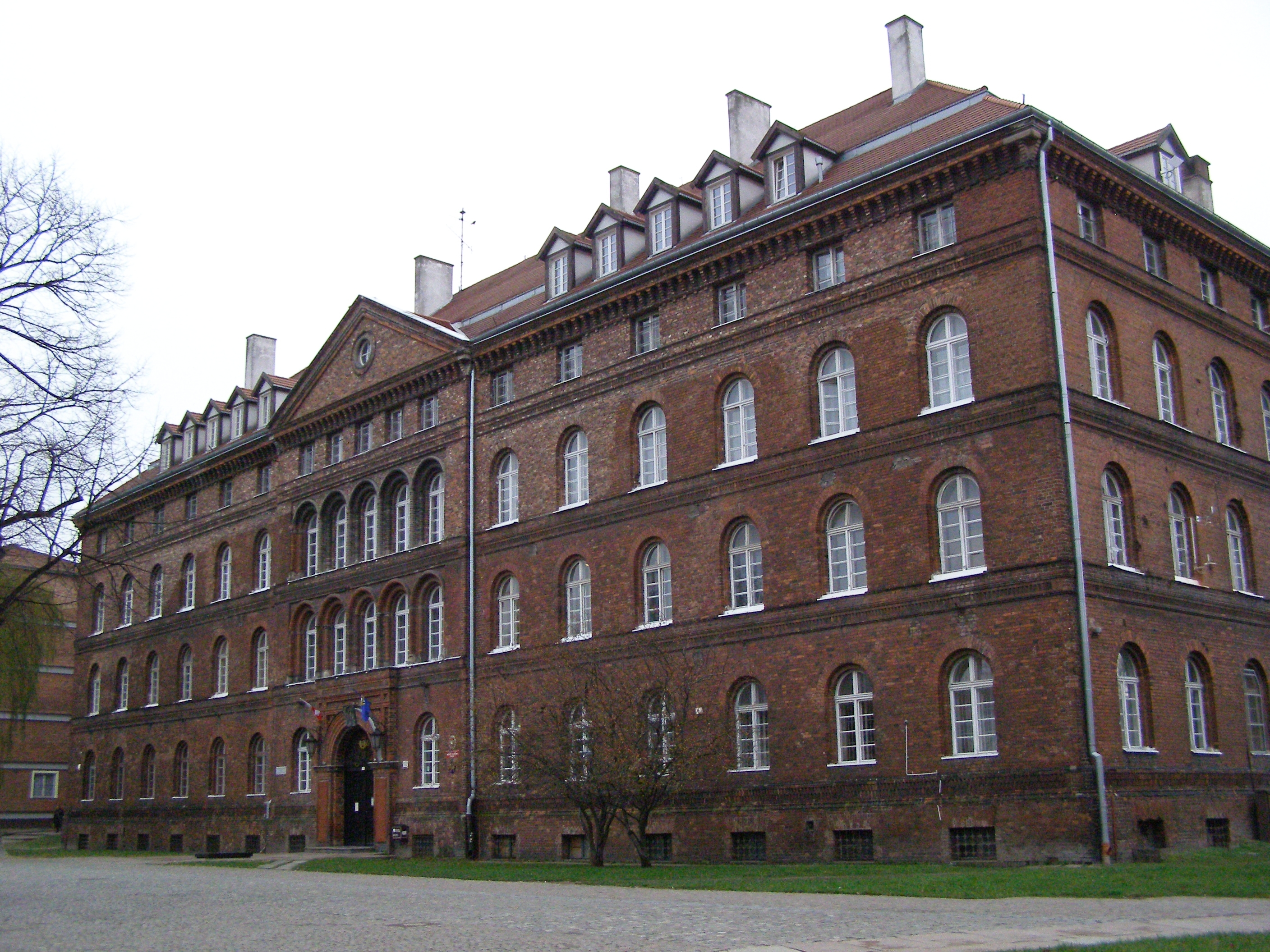 Gdańsk - Museum of the Polish Post